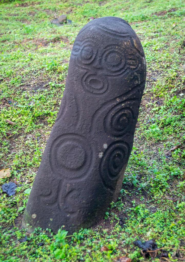 Historical artifact in Alok, Ikom in Cross River state, Nigeria